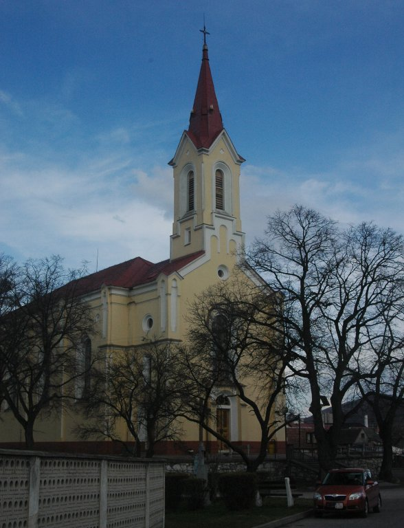 Rohožník (Malacky District), St Mary Catholic Parish Church (1859).